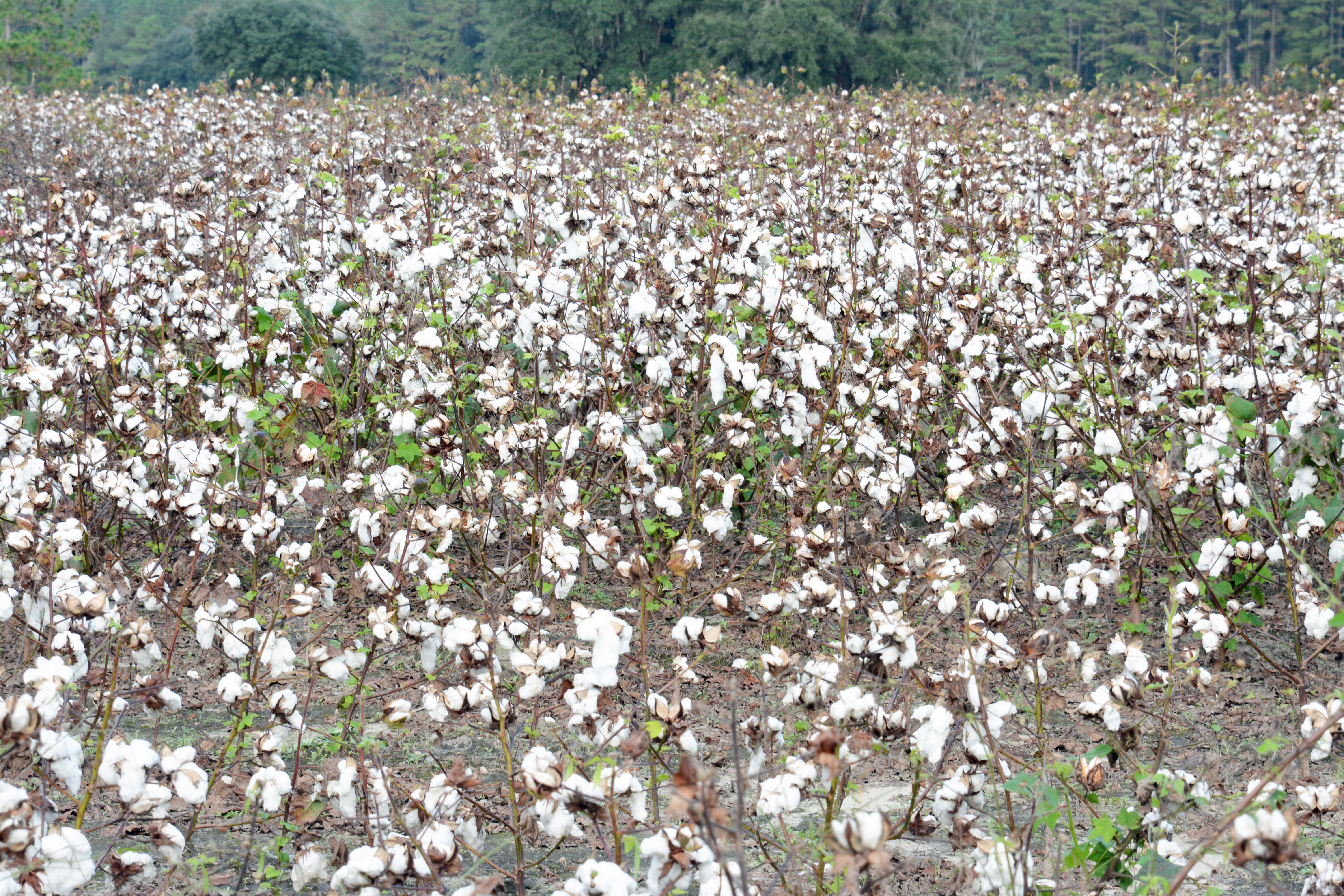 A cotton field, late in the season, after the plant has turned brown